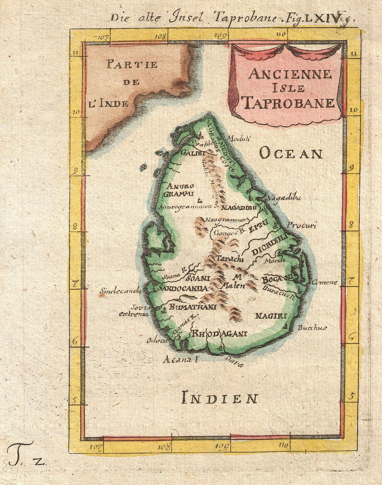 A beautiful miniature 1683 map of Ceylon, Sri Lanka, or Taprobane by Alain Mallet. This stunning little map covers the island of Ceylon as well as parts of adjacent India. Mallet first introduced this map in the 1683 though it was republished several time in the subsequent 20 years. Taprobane is an ancient name for a spice rich trading center that was well known in ancient Roman times. By the 17th century Portuguese explorers had reopened the route to the Indies but were uncertain exactly which island the Romans were referring to. Some map Taprobrane as Sumatra, other as Ceylon. The common consensus now, as in Mallet’s time, is that the Roman Taprobane is Ceylon. Published by copper plate in the 1686 Frankfurt edition of Mallet’s Description de l'Univers.